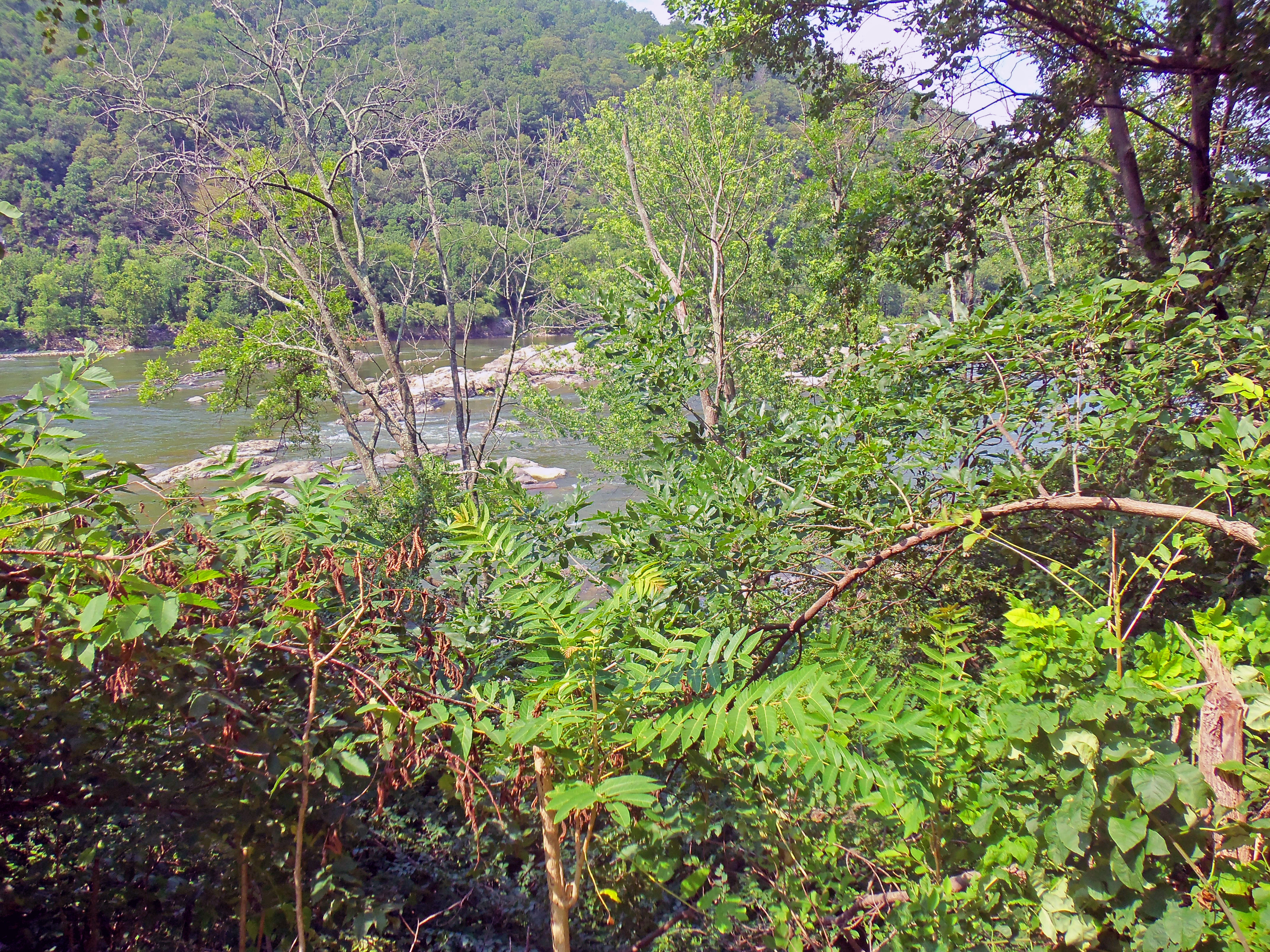 Potomac River taken from Virginia–West Virginia state line along U.S. 340, looking across to Maryland side. Tripoint of three states is actually in river just off shore on this side, since the state line is mean low water on Virginia side, and West Virginia inherited that border when it was created. The riverbank on this side is also the lowest, and easternmost, point in the state.